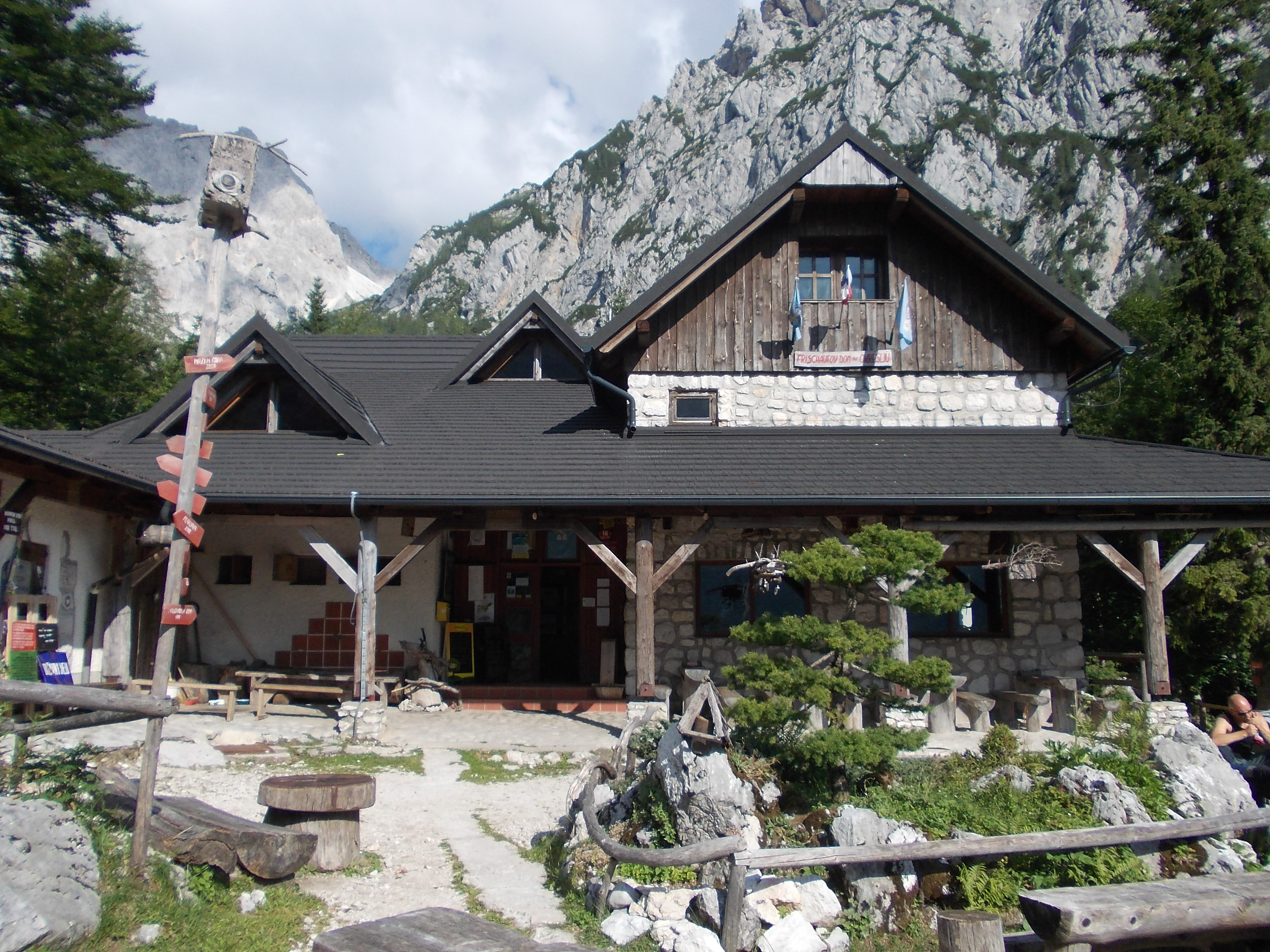 Frischauf Lodge at Okrešelj